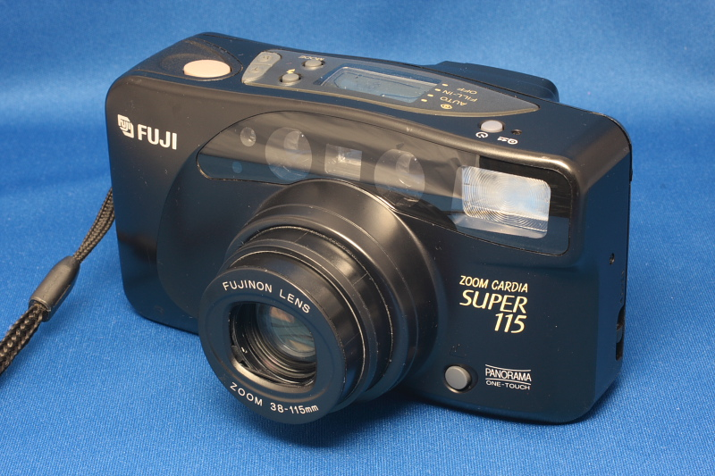 Fujifilm ZOOM CARDIA SUPER 115 (released in 1994)